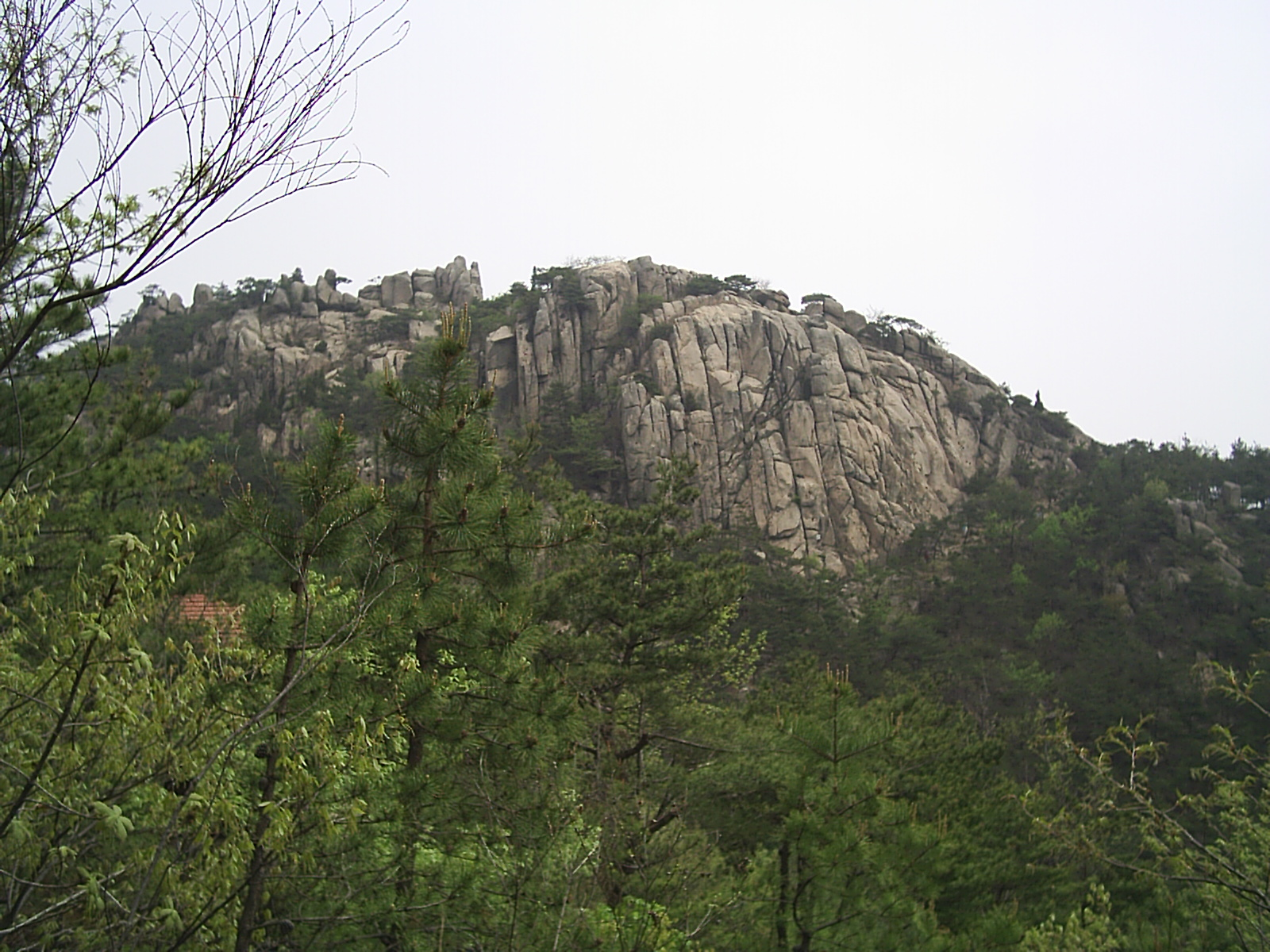 Yongbong mountain in Hongseong, Chungcheongnam-do(South Chungcheong), South Korea